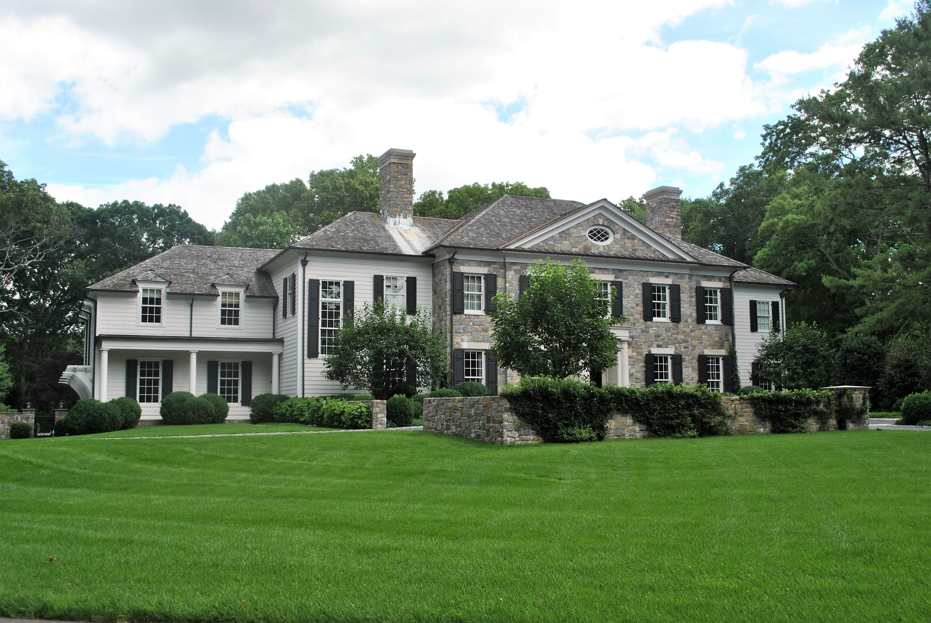 Image originally published in Queer Places: Retracing the Steps of LGBTQ people around the World Authored by Elisa Rolle